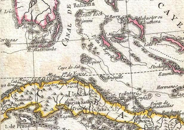 Los Roques in a 1779 map. Map Section